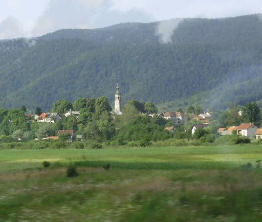 Church in Croatia